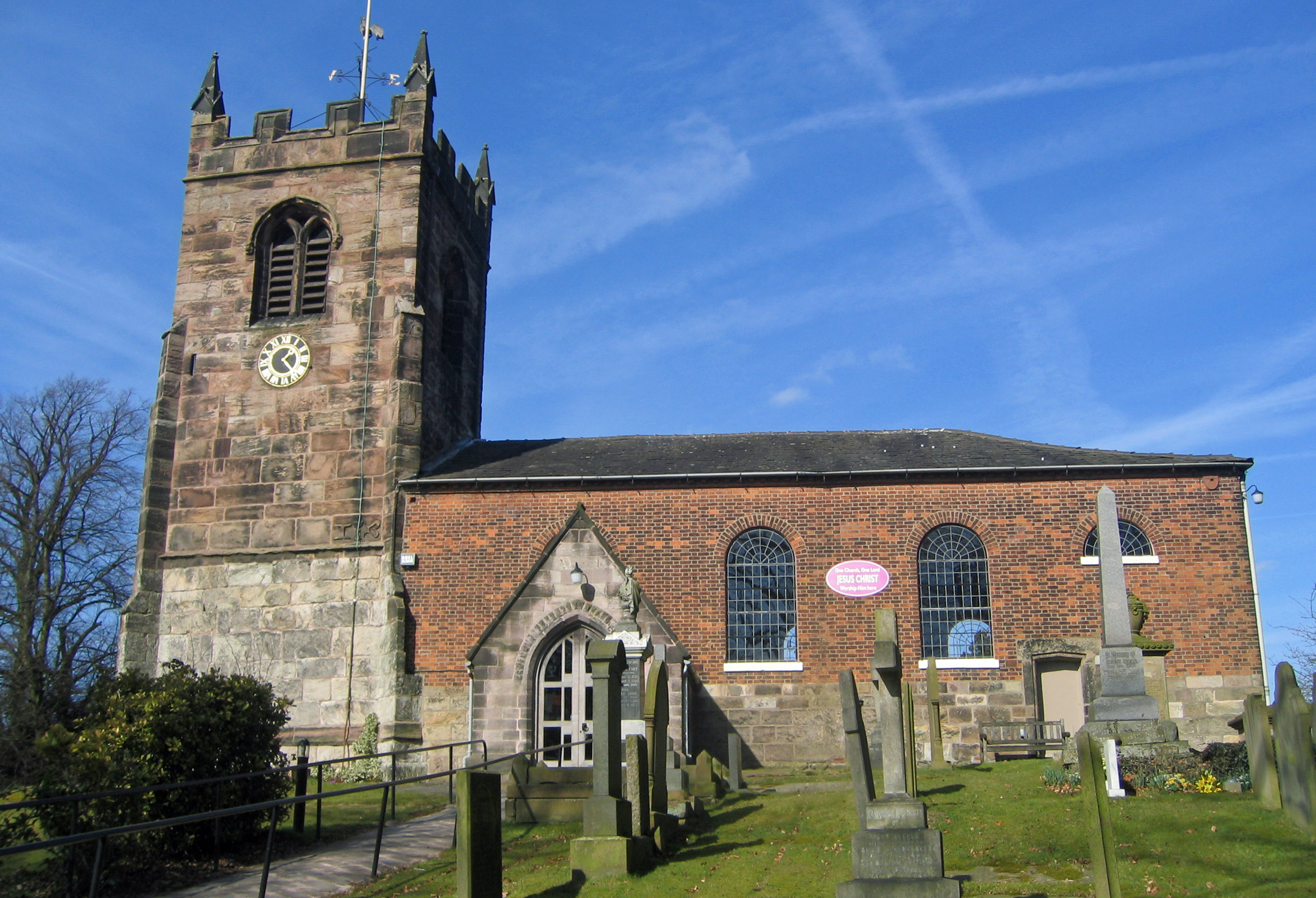 Photograph of All Saints Church, Church Lawton, Cheshire, England, from the south